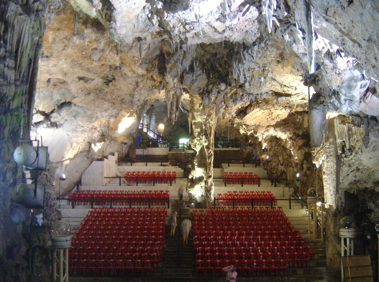 View of the stands taken from the stage of the auditorium at St. Michael's Cave, Gibraltar.